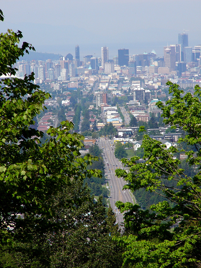 Burnaby_+_Vancouver